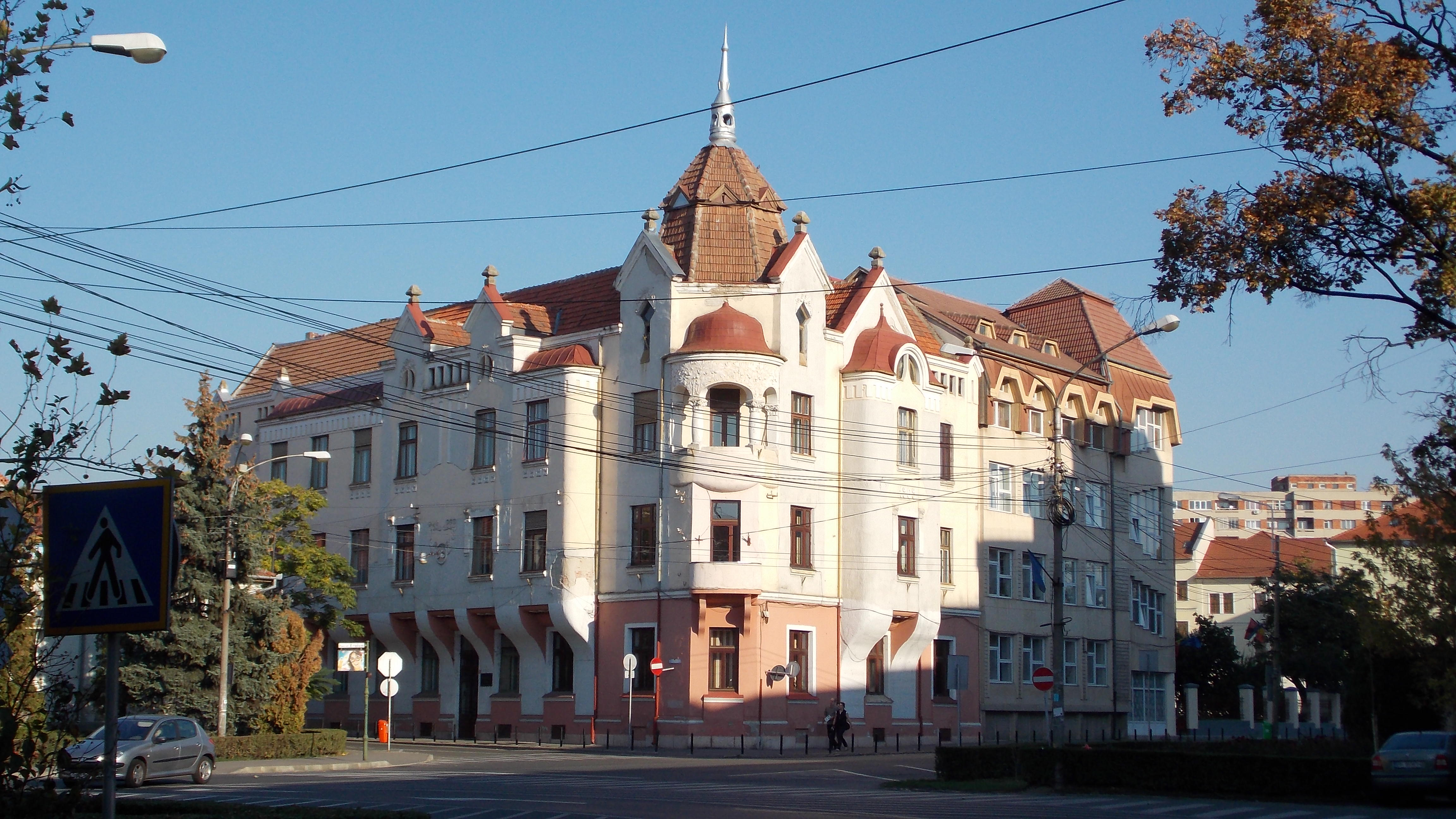 The Bar - Oradea, RomaniaRomână: Baroul - Oradea